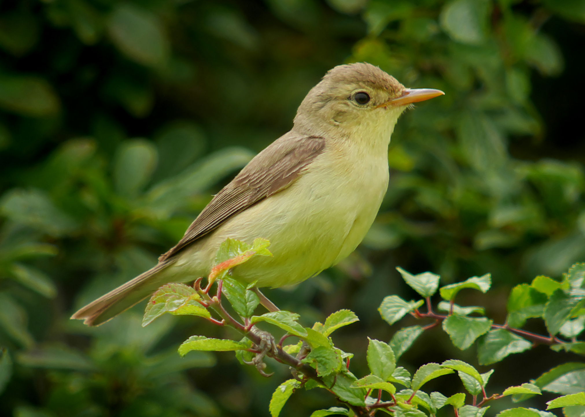 Digiscoping with Swarovski ATM 80 HD 30 X, Panasonic GX7 + Lumix G 20mm F1.7 ASPH lens (Adapter DCB)